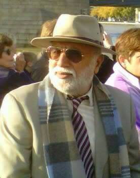 Sardar Wahdis Bakhsh Bhayo in London